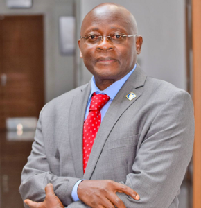 Peter Kimbowa is a Board member, Adviser, and Executive Coach